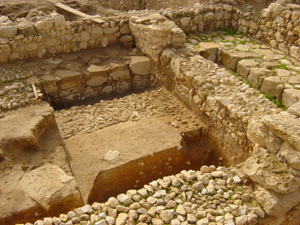 The Bronze / Iron Age Migdol Temple at Pella, Jordan (D.C. Thomas, February 2005)